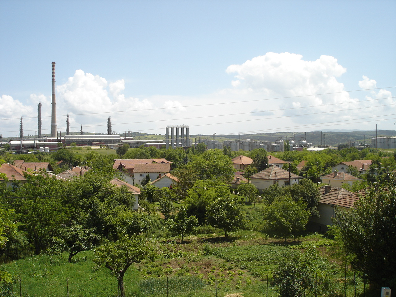 village of Bujkovci, near Skopje, Macedonia